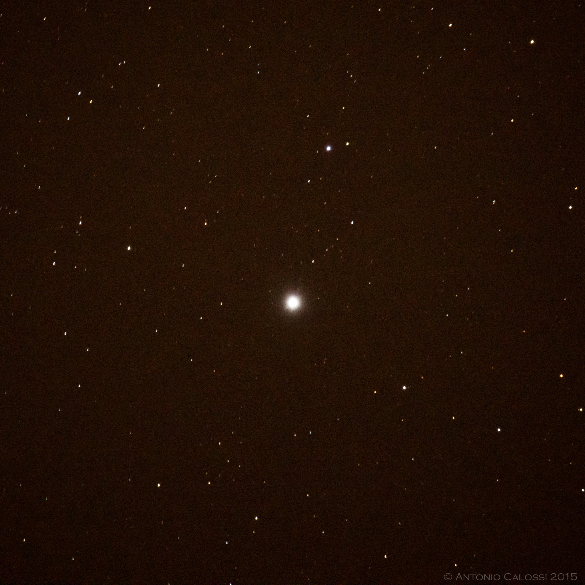 Single shot, Sony A7r + MTO-11CA 1000mm f/10, 6400 ISO